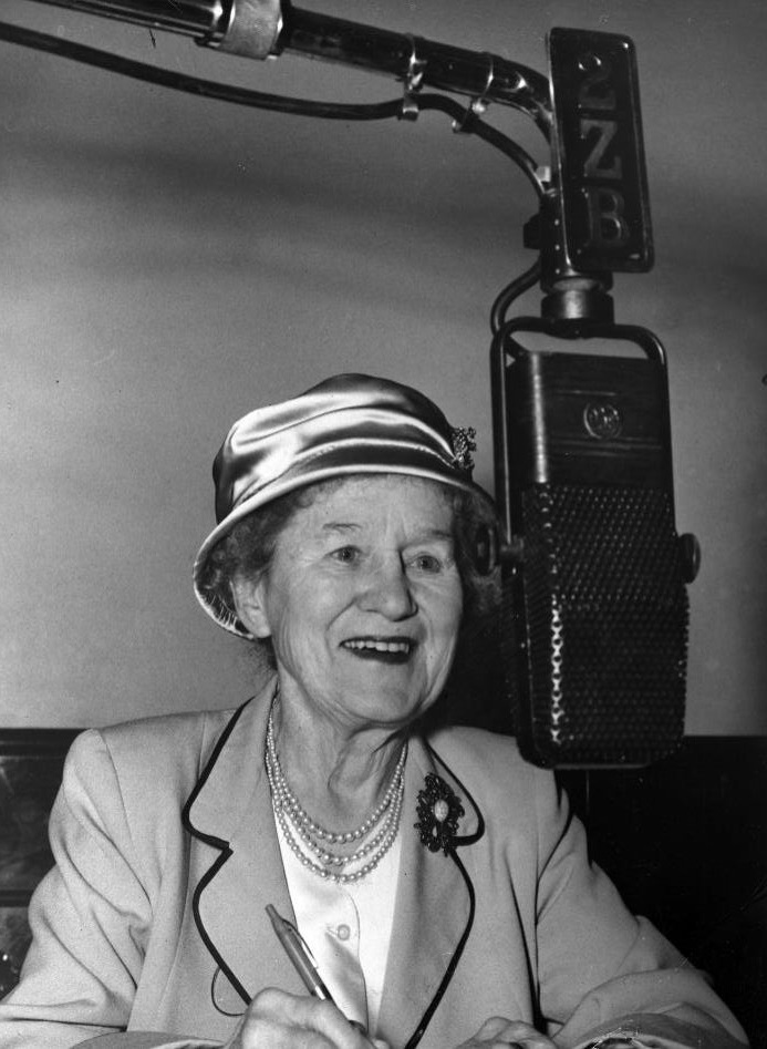 Aunt Daisy (also known at Maud Ruby Basham) at a 2ZB microphone.